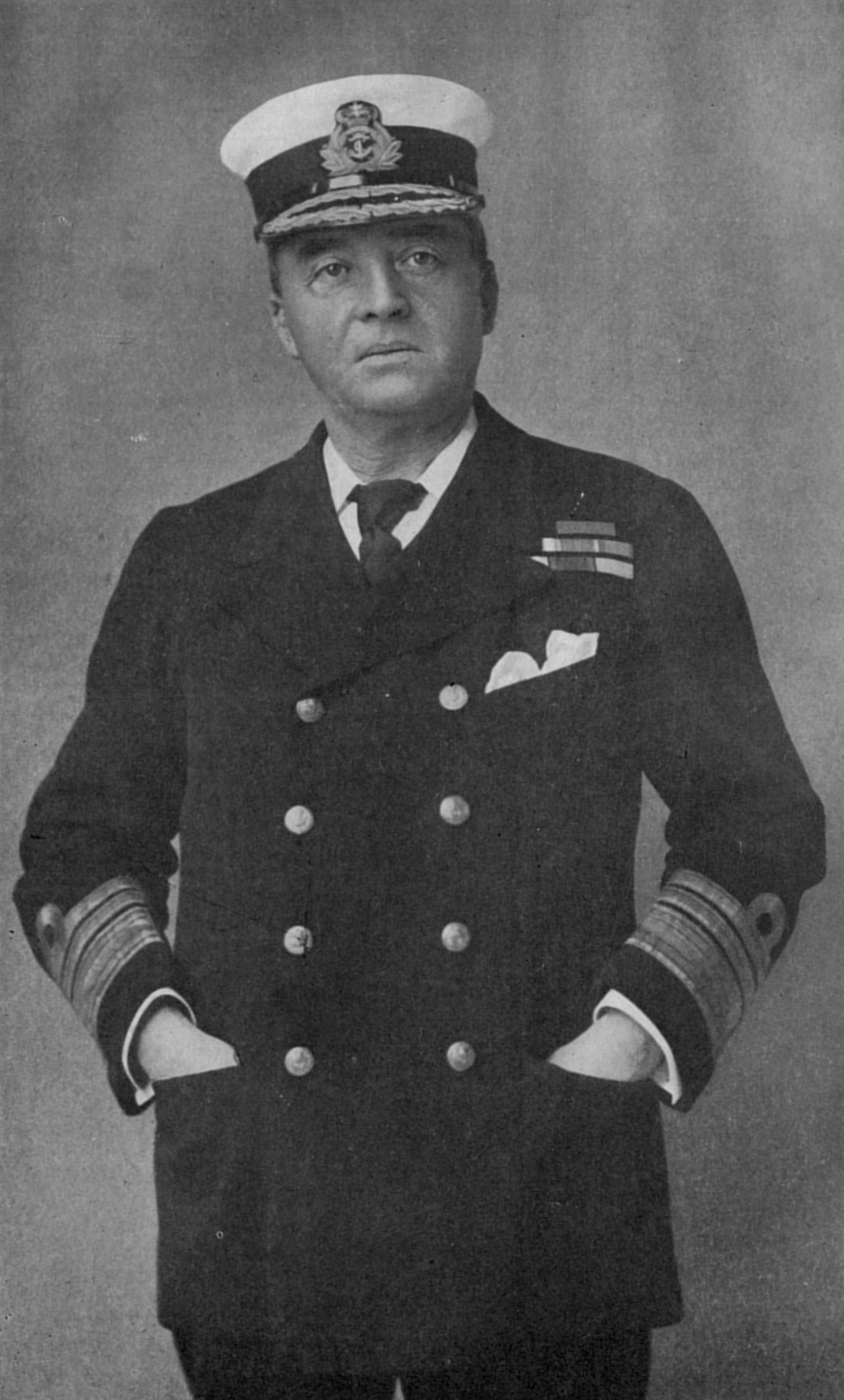 John Arbuthnot Fisher shown with rank of Vice Admiral, taken at Valetta, Malta. Most likely therefore when he was CinC Mediterranean fleet with that rank, 1899-1901